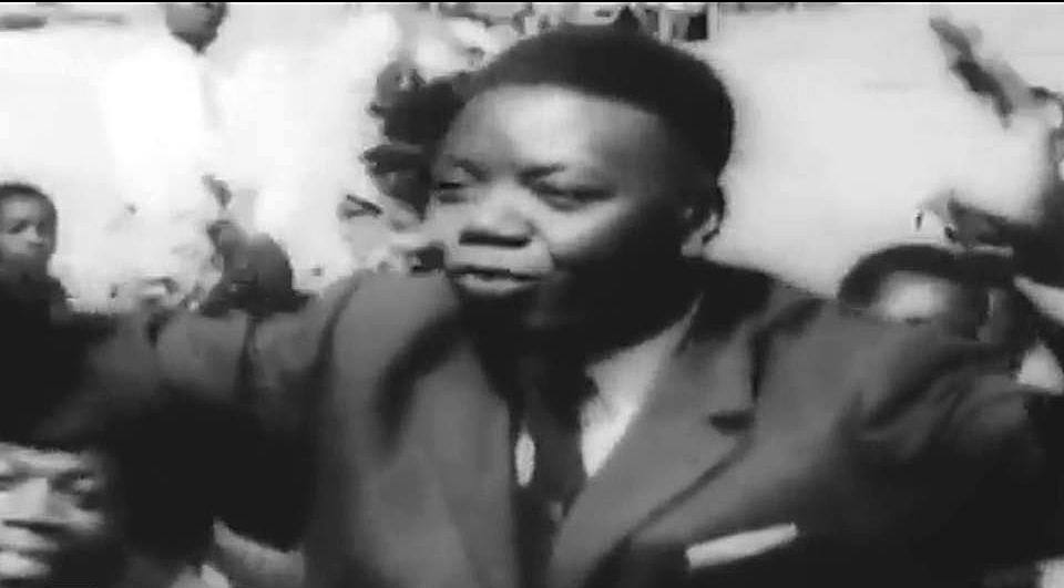 Moïse Tshombe with supporters